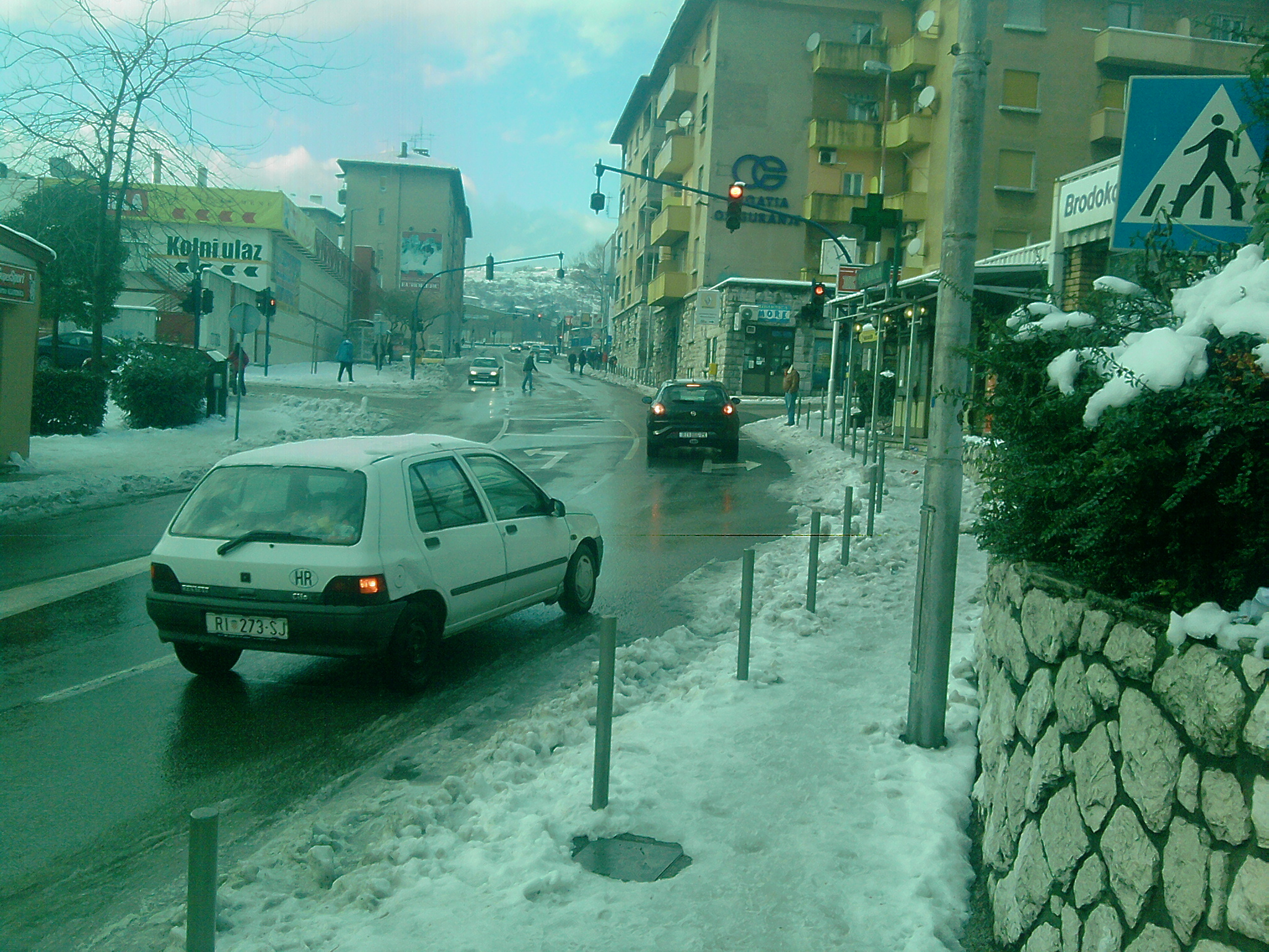 Intersection in Osječka